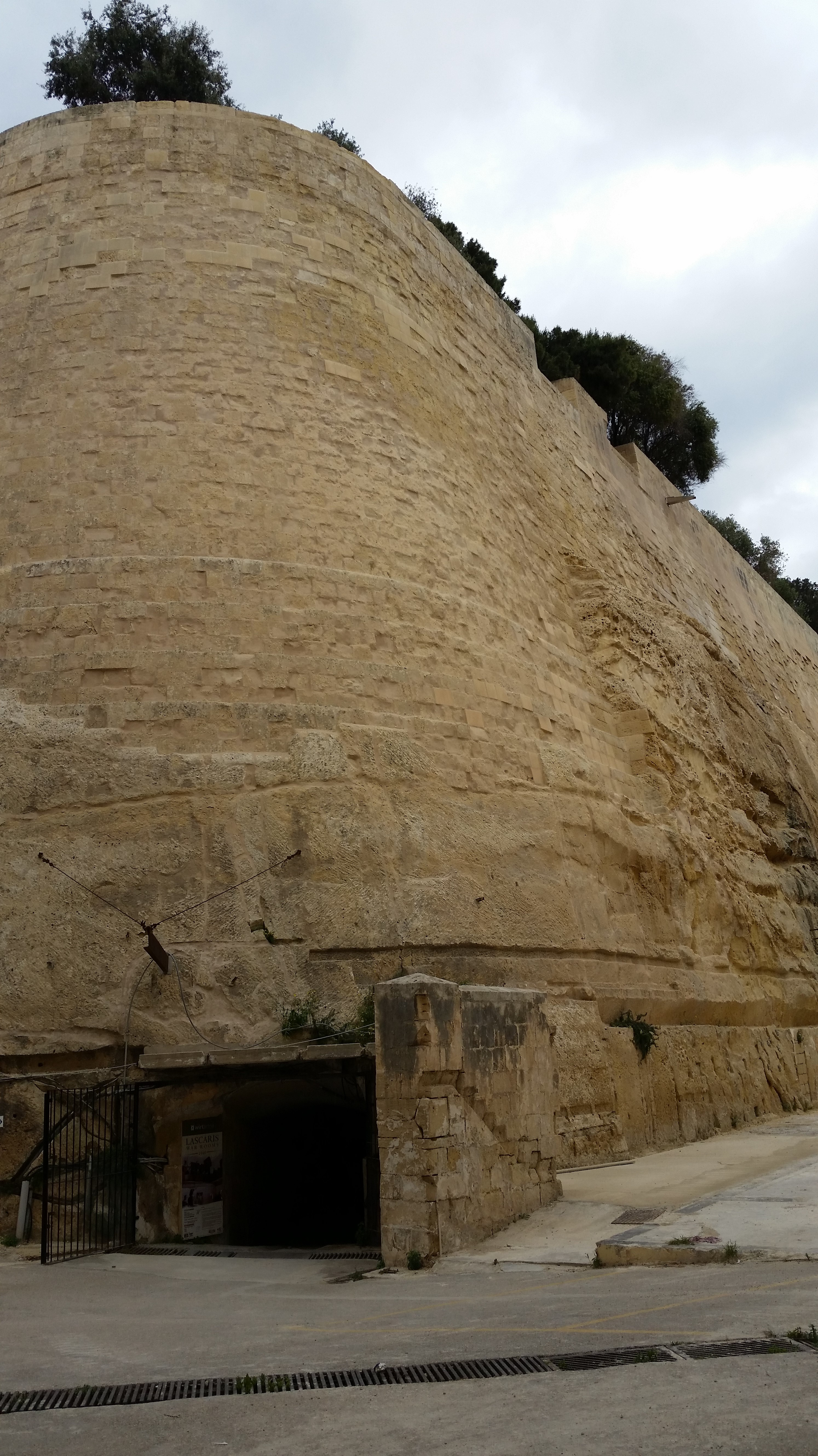 Lascaris War Room Entrance